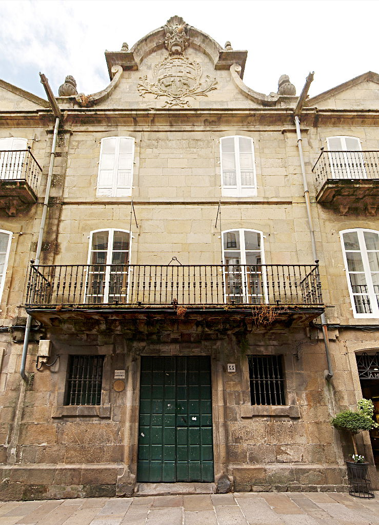 Pazo de Ramirás, also know as Pazo de Ramiranes; former Colexio dos Irlandeses. Stitch of 2 horizontal shots.